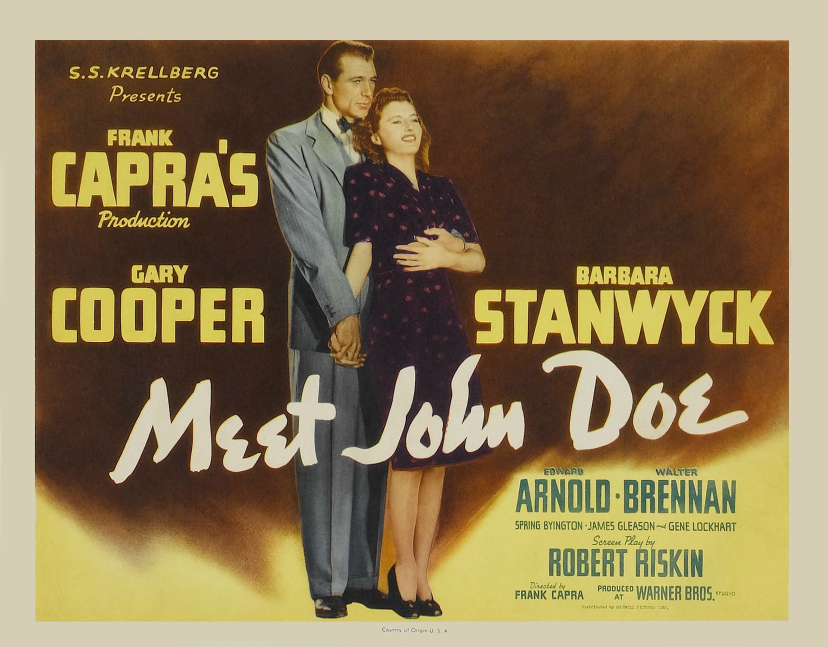 Film poster for Meet John Doe